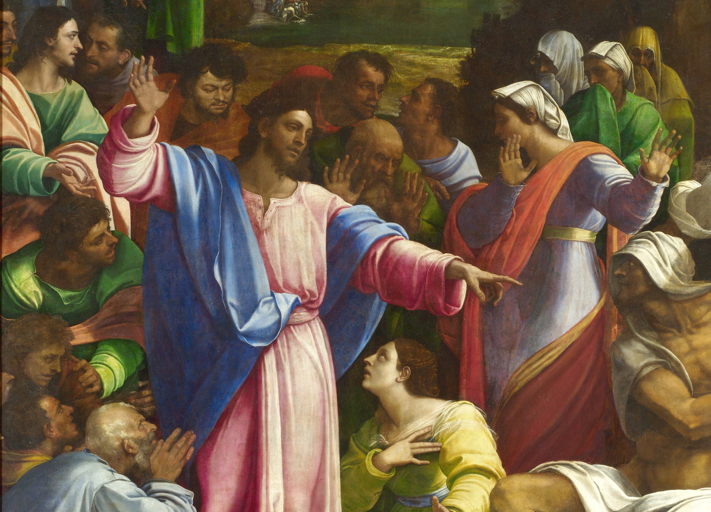 File:Sebastiano del Piombo, The Raising of Lazarus.jpg, cropped and lightened.